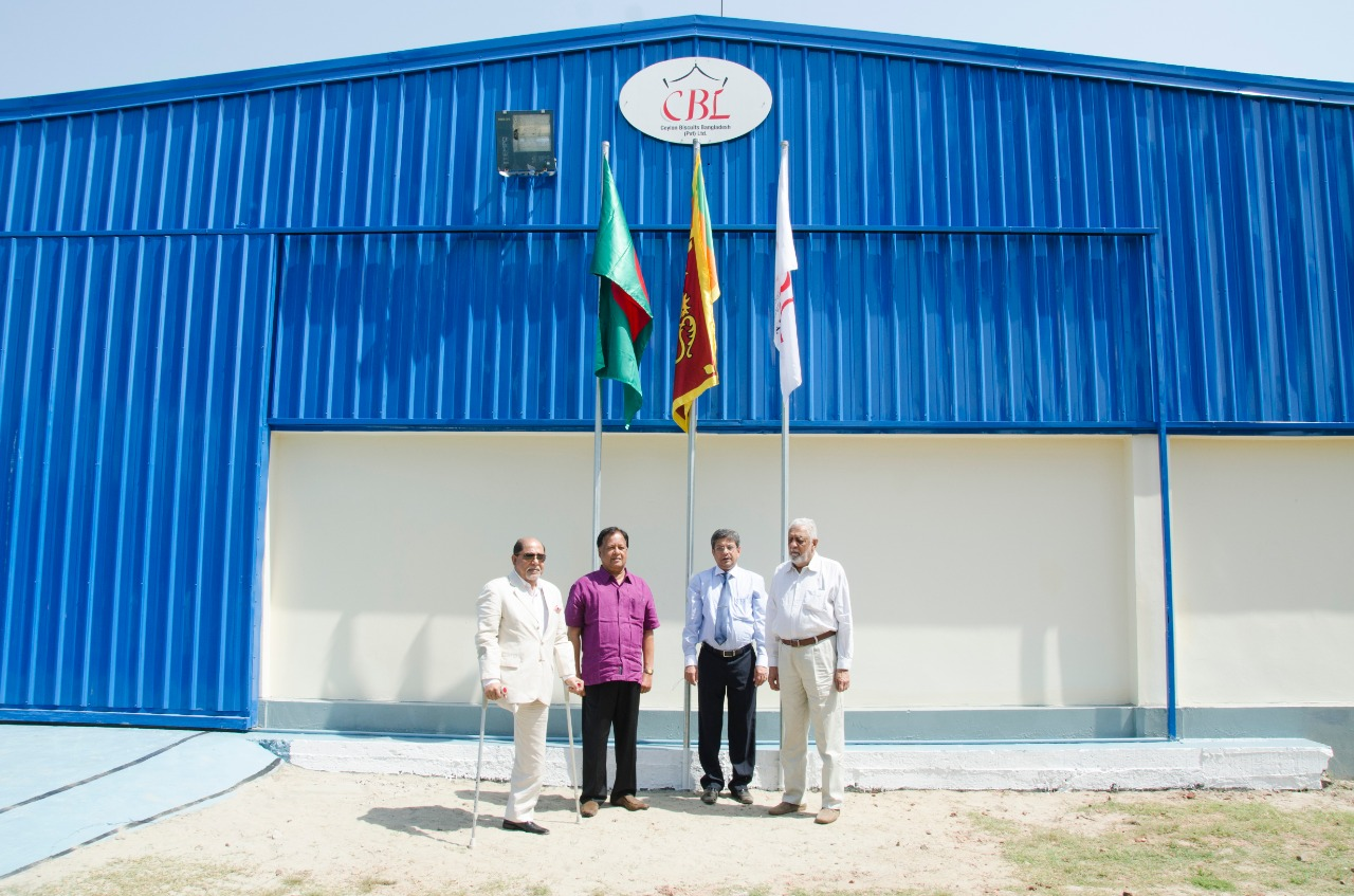 CBL Munchee factory established in 2014 in Sreepur Upazila, Gazipur District, 35 km from Dhaka as the first Sri Lankan owned confectionery manufacturing plant in Bangladesh.